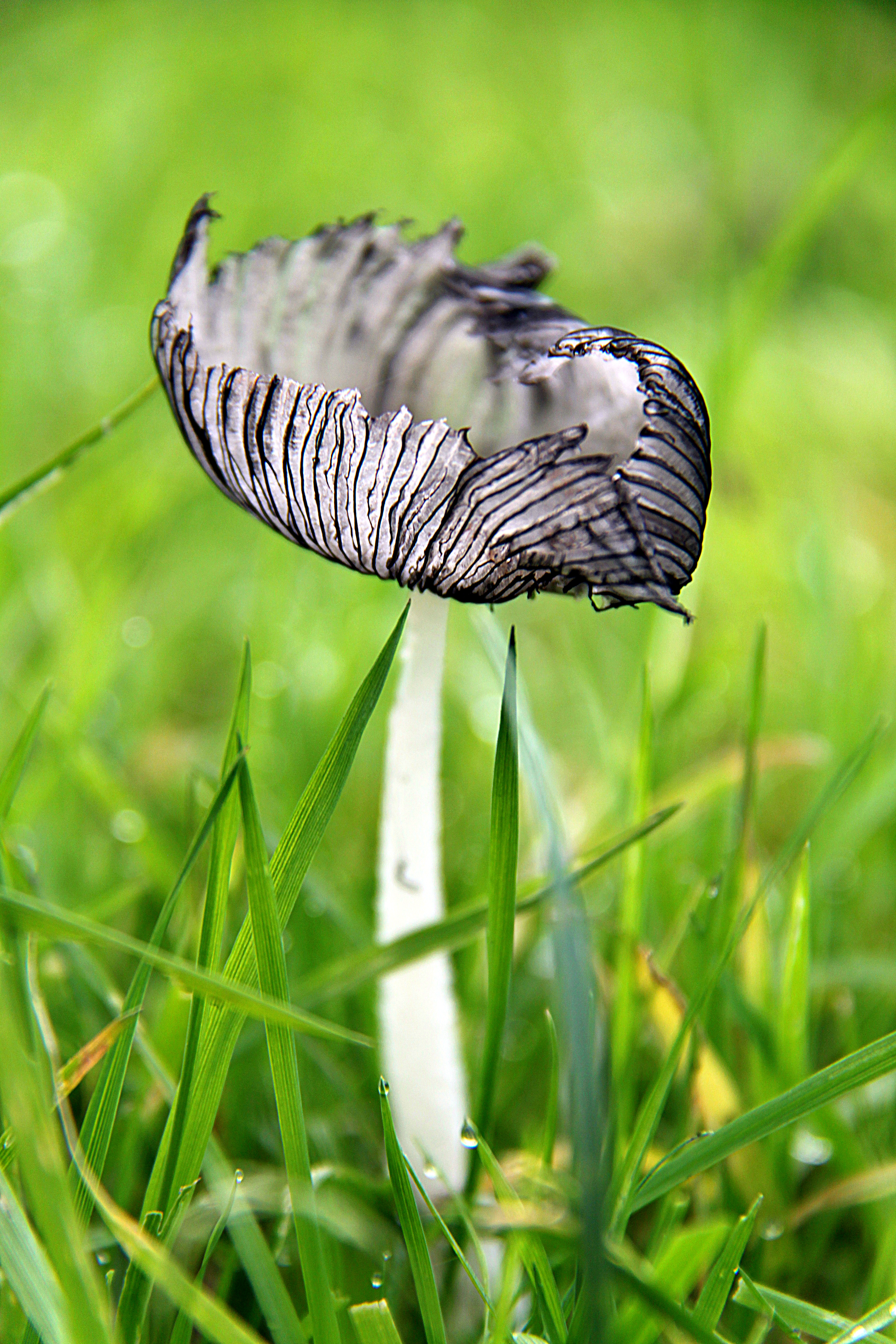 Sideview of a mushroom, Coprinopsis lagopus, 18 cm high, photographed 23 November 2014, in Rozenburg, Netherlands